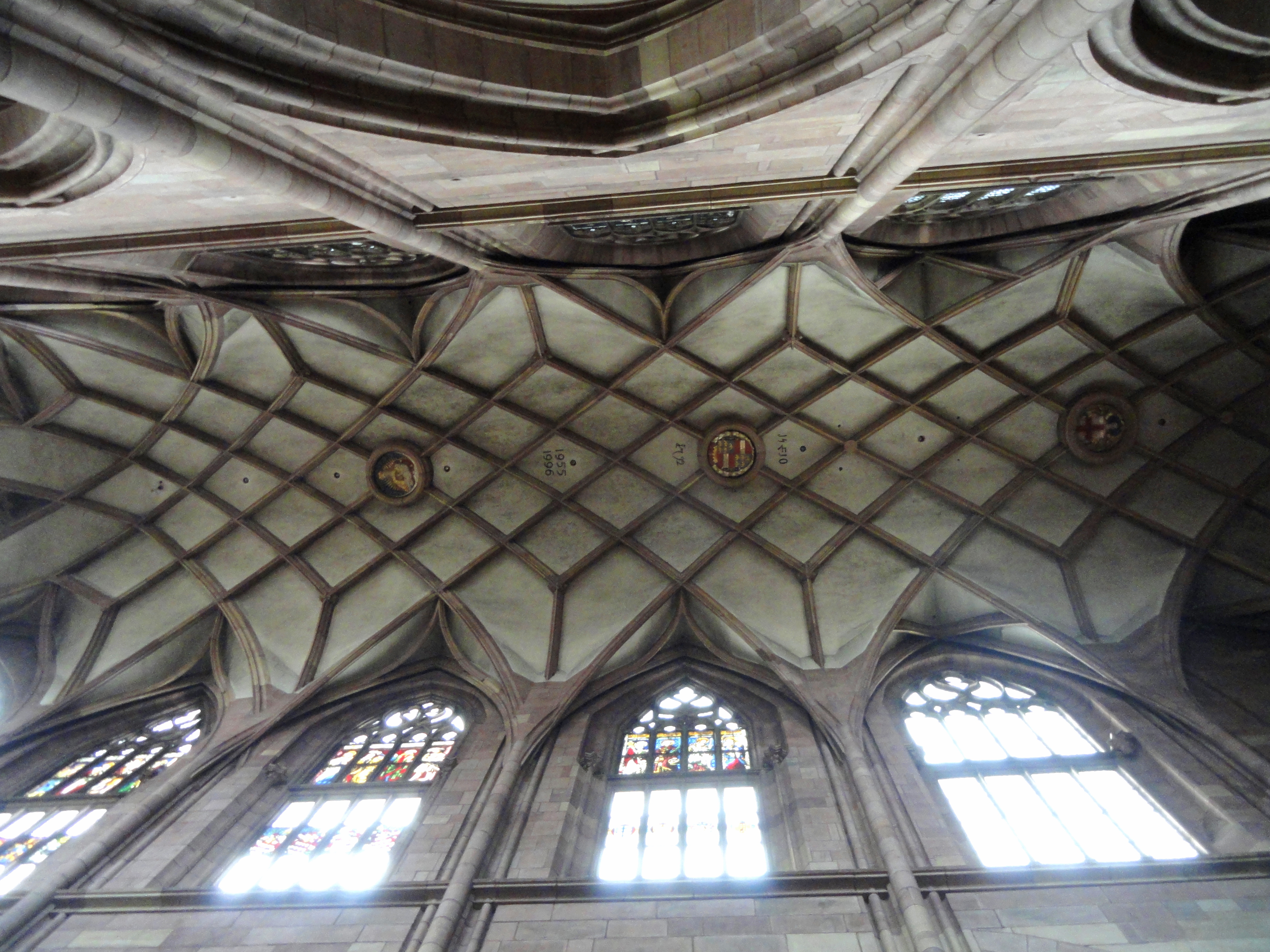 Interior of Freiburg Minster, Freiburg im Breisgau, Baden-Württemberg, Germany.